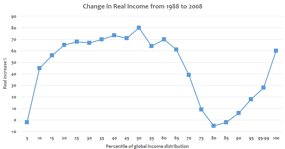 Change in real income between 1988 and 2008 at various percentiles of global income distribution, calculated in 2005 international dollars